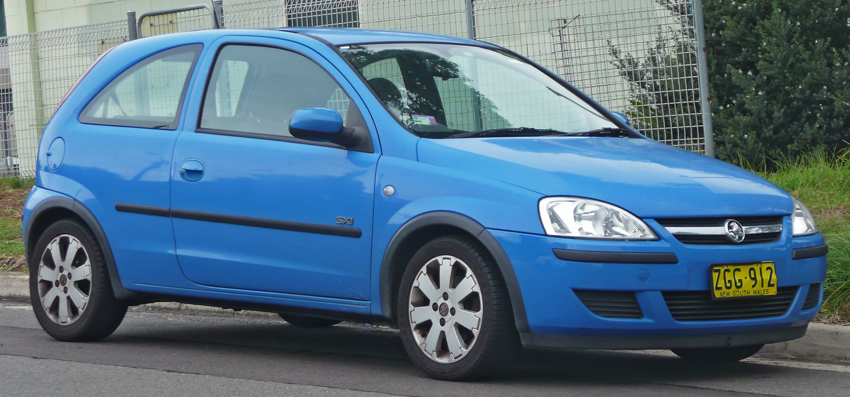 2004 Holden Barina (XC MY04) SXi 3-door hatchback. Photographed in Cronulla, New South Wales, Australia.